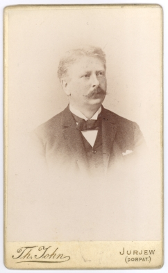 Otto KüstnerEesti: Küstner, Otto (1849-1931), günekoloog, TÜ professor